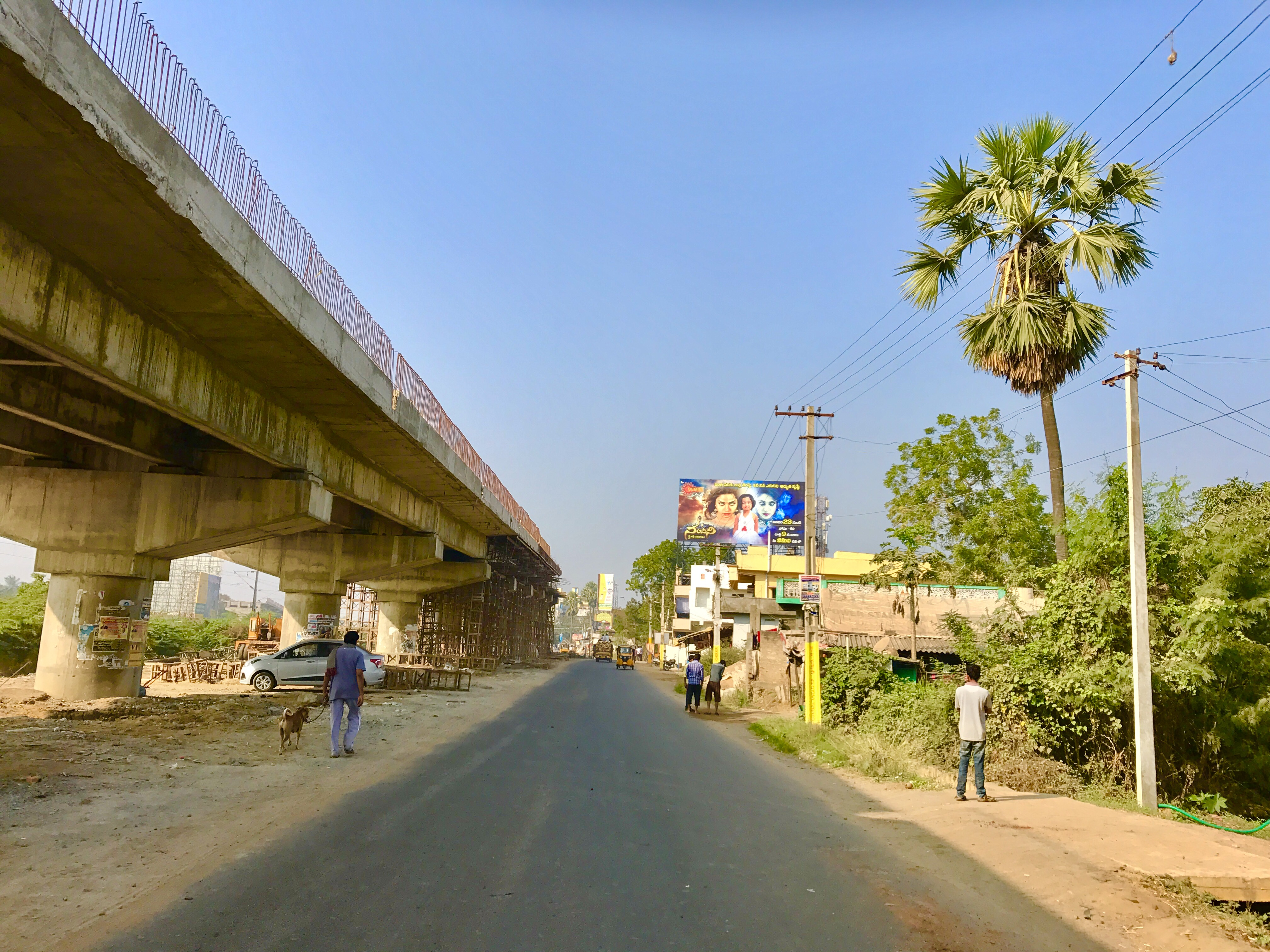 Flyover Underconstruction near Vartluru Railway Gate